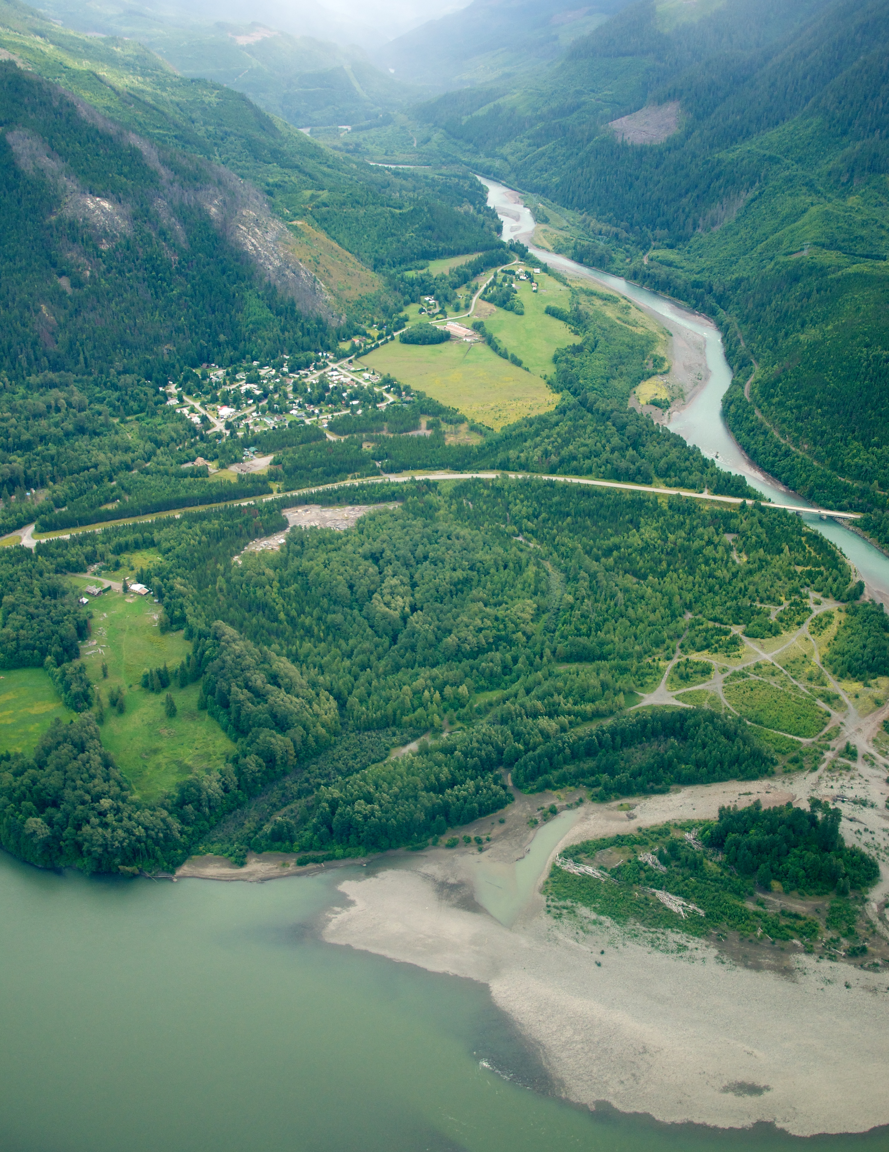 Aerial view of Copper Estates, Terrace